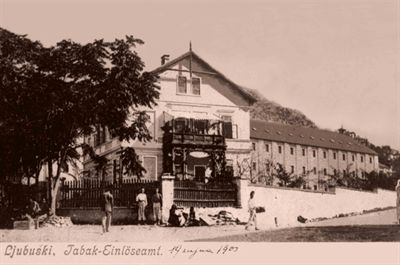 Ljubuški - Tobacco-cashing-office in 1903